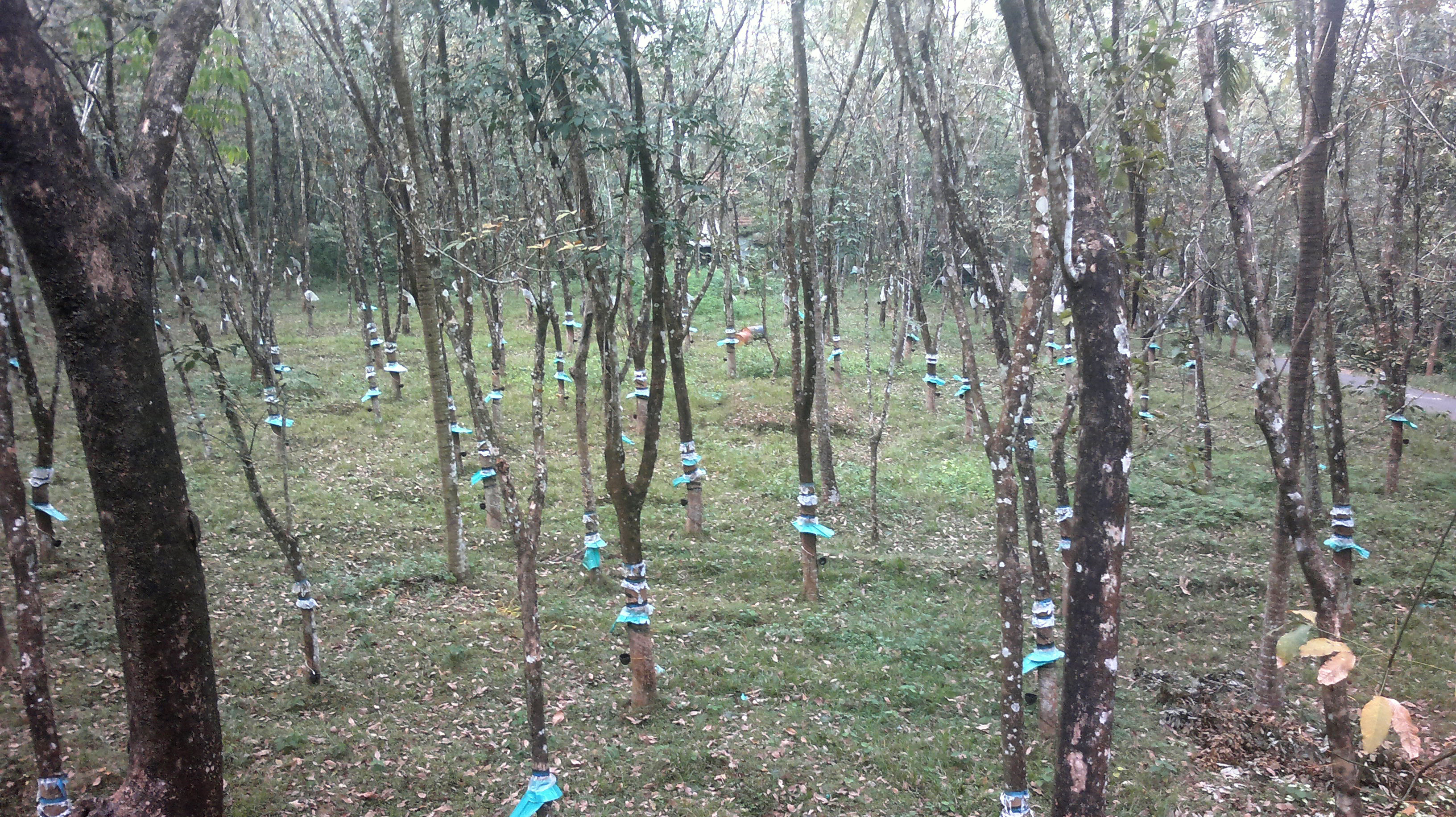 Mattakkara village